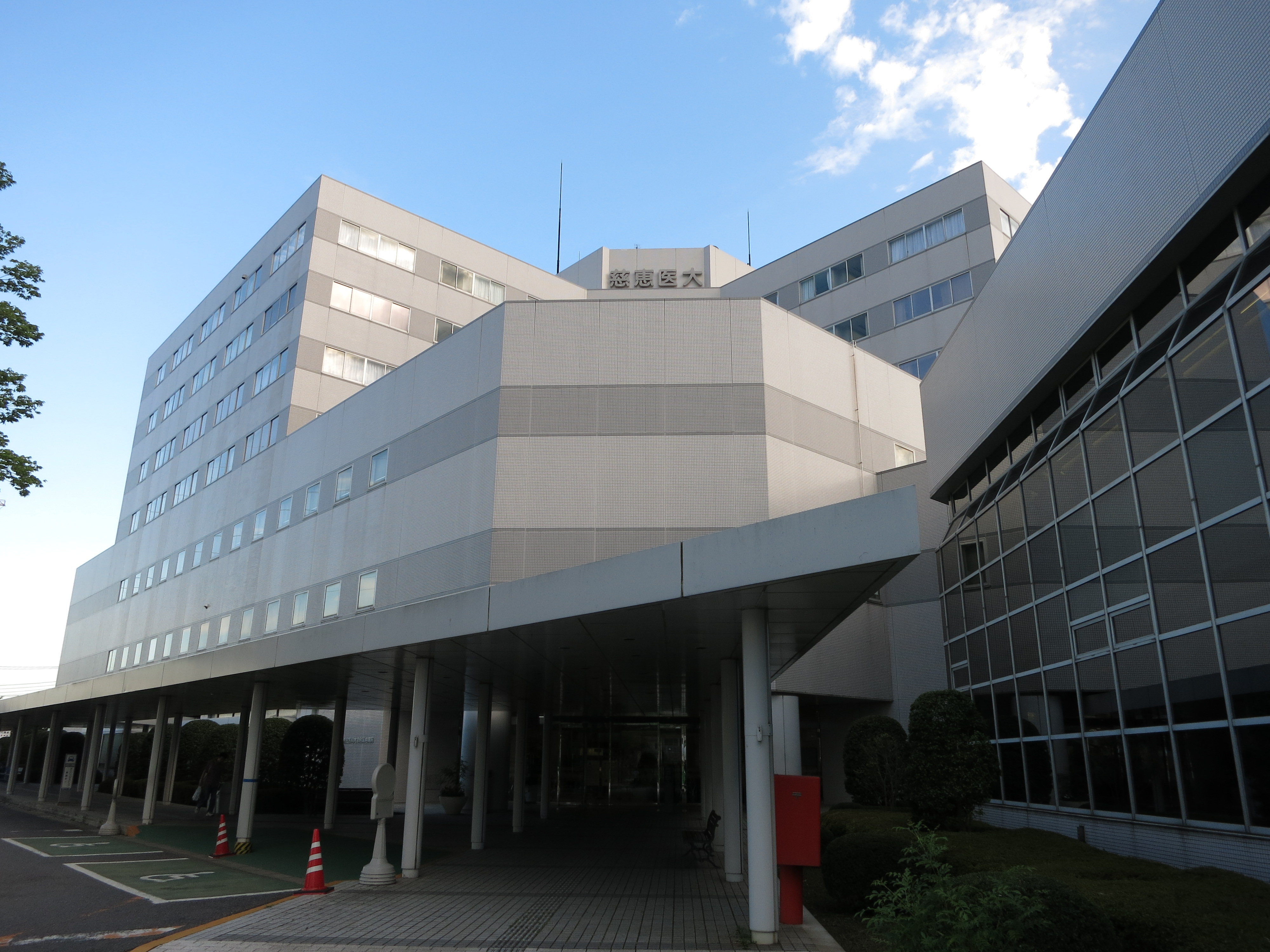 The Jikei University Kashiwa Hospital